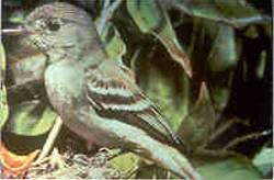 Southwest Willow Flycatcher — Empidonax traillii. At Pahranagat National Wildlife Refuge — Lincoln County, southern Nevada.